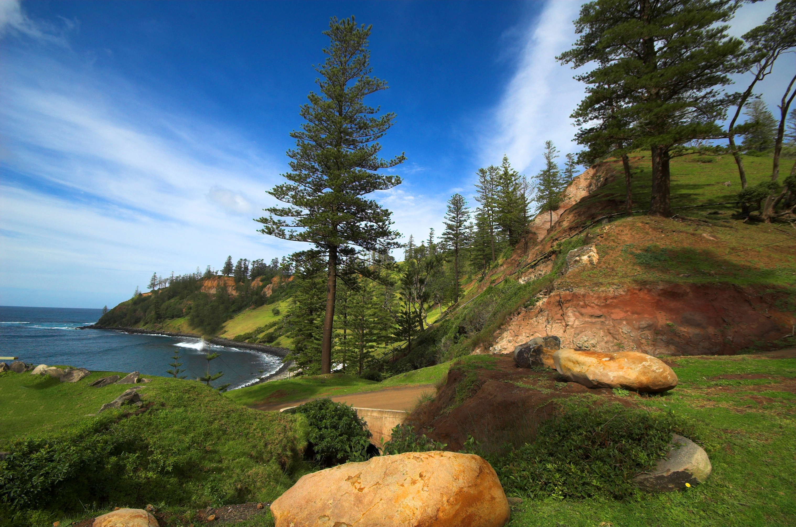 Araucaria heterophylla (Norfolk Island pines) in habitat on Norfolk Island.